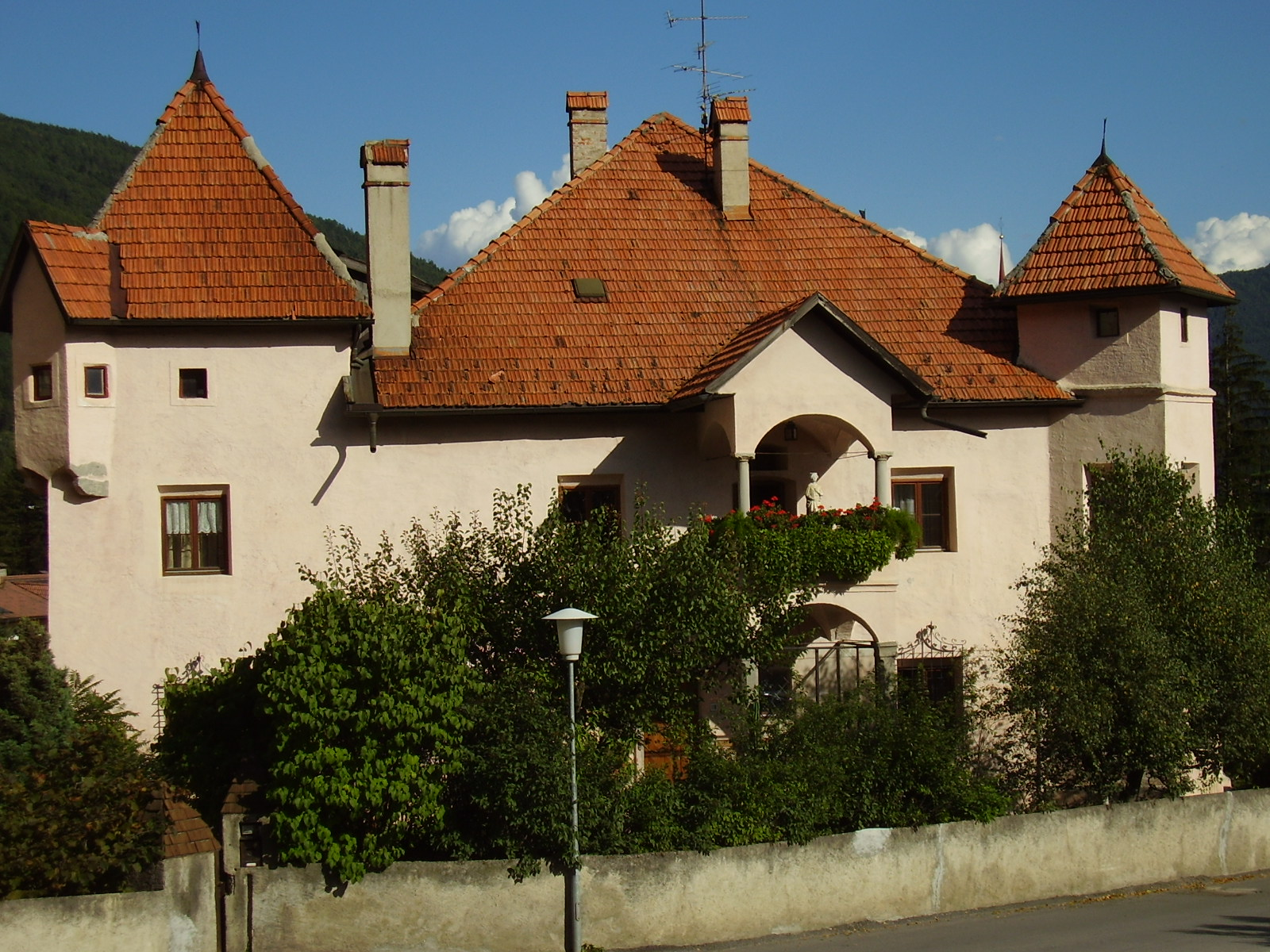 The "Ansitz Grembsen" in St. Georgen (Bruneck, South-Tyrol, Itay)